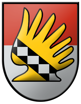 Coat of Arms of Eßling, Vienna